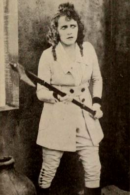 Still from the American western film serial Hands Up! (1918) with Ruth Roland, on page 23 of the August 24, 1918 Exhibitors Herald.